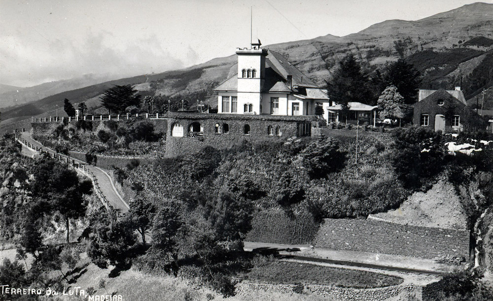 Caminho de Ferro do Monte - Old tramway in Funchal, Madeira